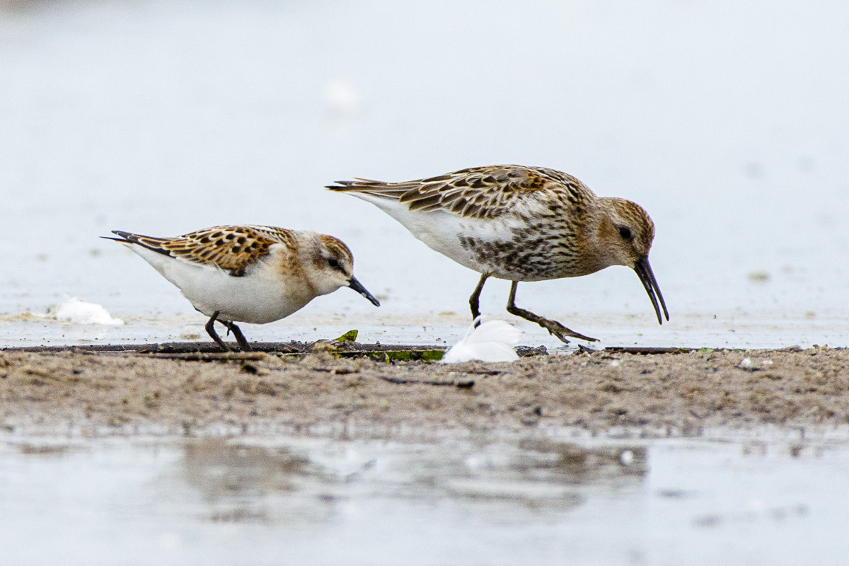 Little stint Calidris minuta (on the left) and dunlin Calidris alpina in the mouth of the Reda river in Puck Bay in front of the nature reserve Beka.